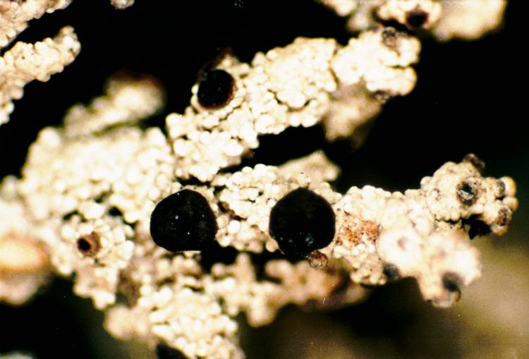 Stereocaulon tomentosum Fr., 1824 (photograph of a herbarium specimen) Growing on soil along roadside at Sturgeon Bay Tr. and Lake Shore Drive, Emmet County, Michigan, USA; collected and identified by Richard E. Riefner (No. 81-239, 24 Jun 1981); specimen is now in the Lichen Herbarium of the New York Botanical Garden.